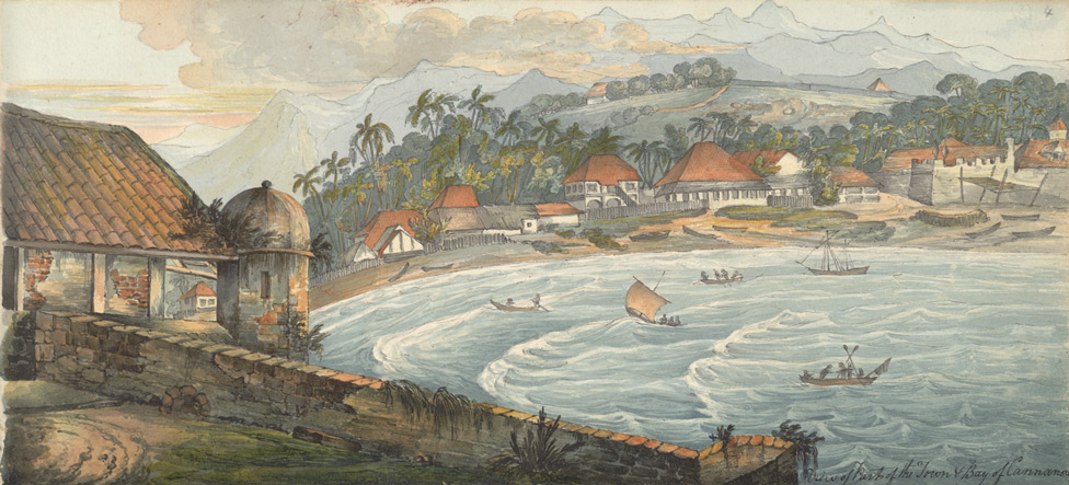 Water-colour painting of the town and bay of Kannur by Thomas Cussans (1796-1870). Cussans served in the Madras artillery in 1814, then the Horse Brigade from 1817 to 1829. This is one of 19 drawings (22 folios) of scenes in Mumbai (Bombay) and the south of India together with a few miscellaneous sketches taken between 1817 and c.1822. Inscribed on the cover of the album is: 'Thos Cussans Lt. Madras Artillery. Janry 1817'; and on the title page: 'Thos Cussans, July 30th, 1817' Kannur (Cannanore) is situated on a headland overlooking a picturesque bay in Kerala, in the south of India. Vasco da Gama (1460-1524) the Portuguese explorer who discovered an ocean route from Portugal to the East came to this area in 1498 and it subsequently became an important trading station. The fort of St. Angelo was constructed in 1505 by the first Portuguese Viceroy Don Francisco De Almeda with the consent of the ruling Kolathiri Raja. In 1656 the Dutch expelled the Portuguese and subsequently sold the town to a Moplah family (a community of Arab descent) who claimed sovereignty over the Laccadive Islands, a group of coral reefs and islands off the coast of Kerala. Moplah rule was terminated by the British who attacked and captured Kannur in 1790 and it became their most important military base in the south of India. The barracks, arsenal, cannons and the ruins of a chapel still stand in the fort as a testimony to its glorious history. This image falls into the public domain as it was taken in India prior to 1 January 1951, and was not published in India after that date. It is in public domain in the United States as well as it was taken prior to 1 January 1951.